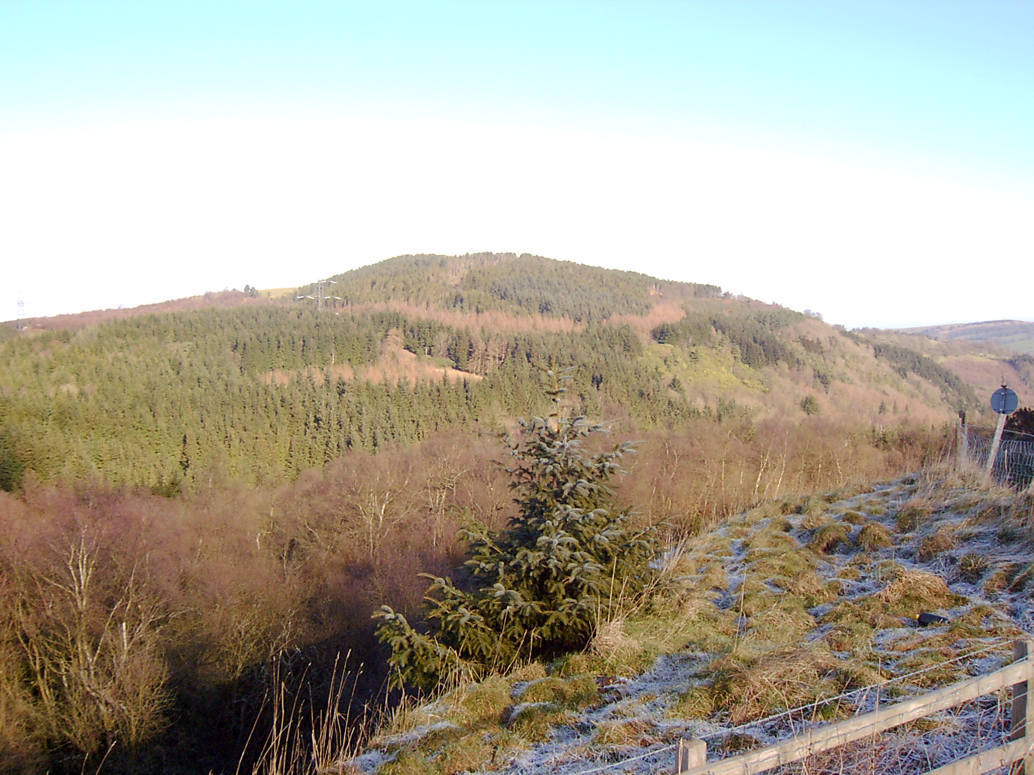 View of Nant-y-Ffrith woods from Bwlchgwyn, Wrexham county borough, North Wales.